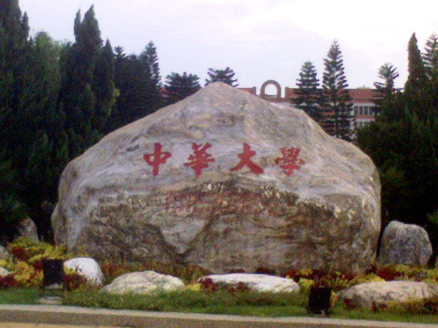 Chung Hua University's stele